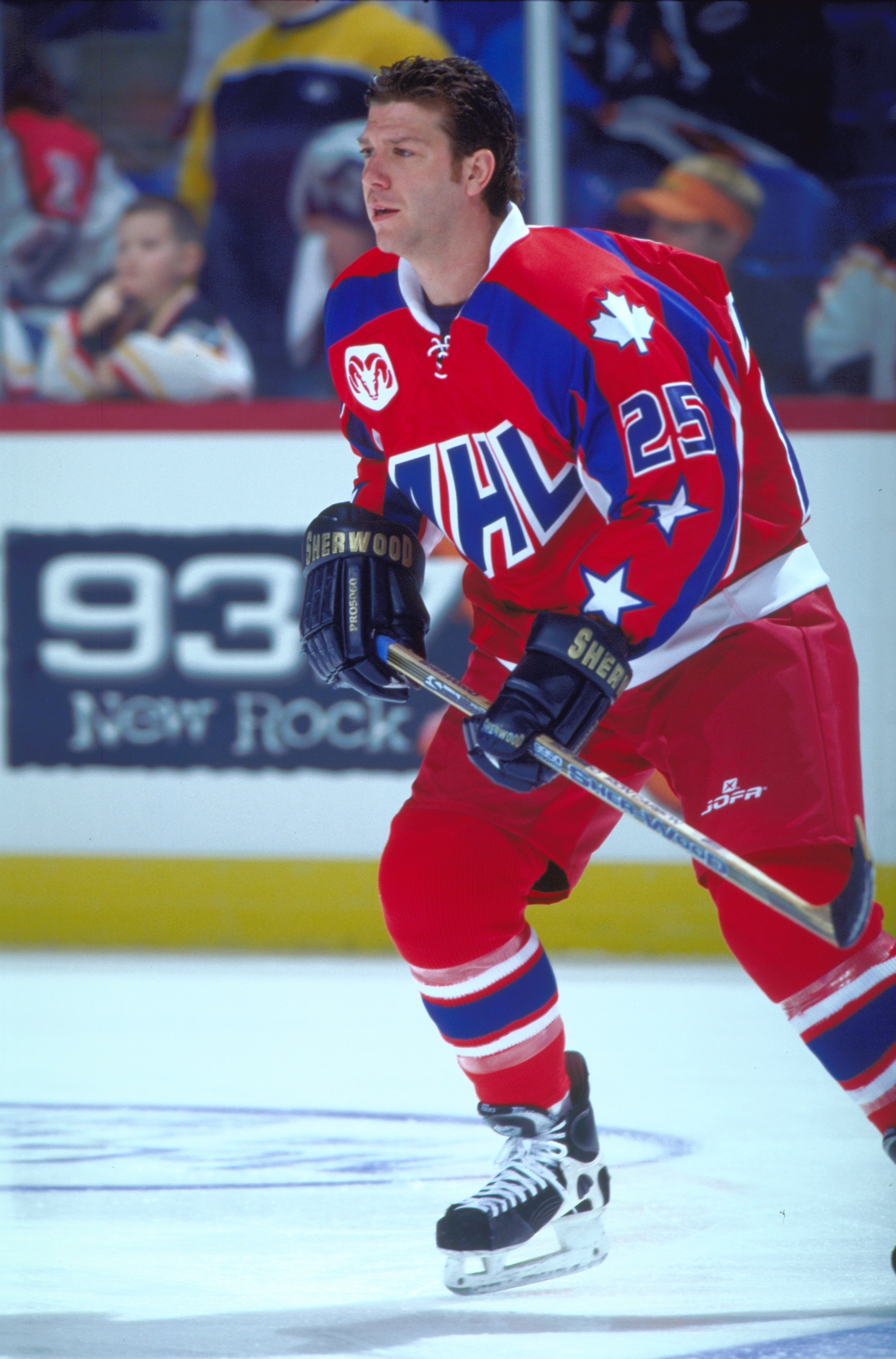 hhof0377